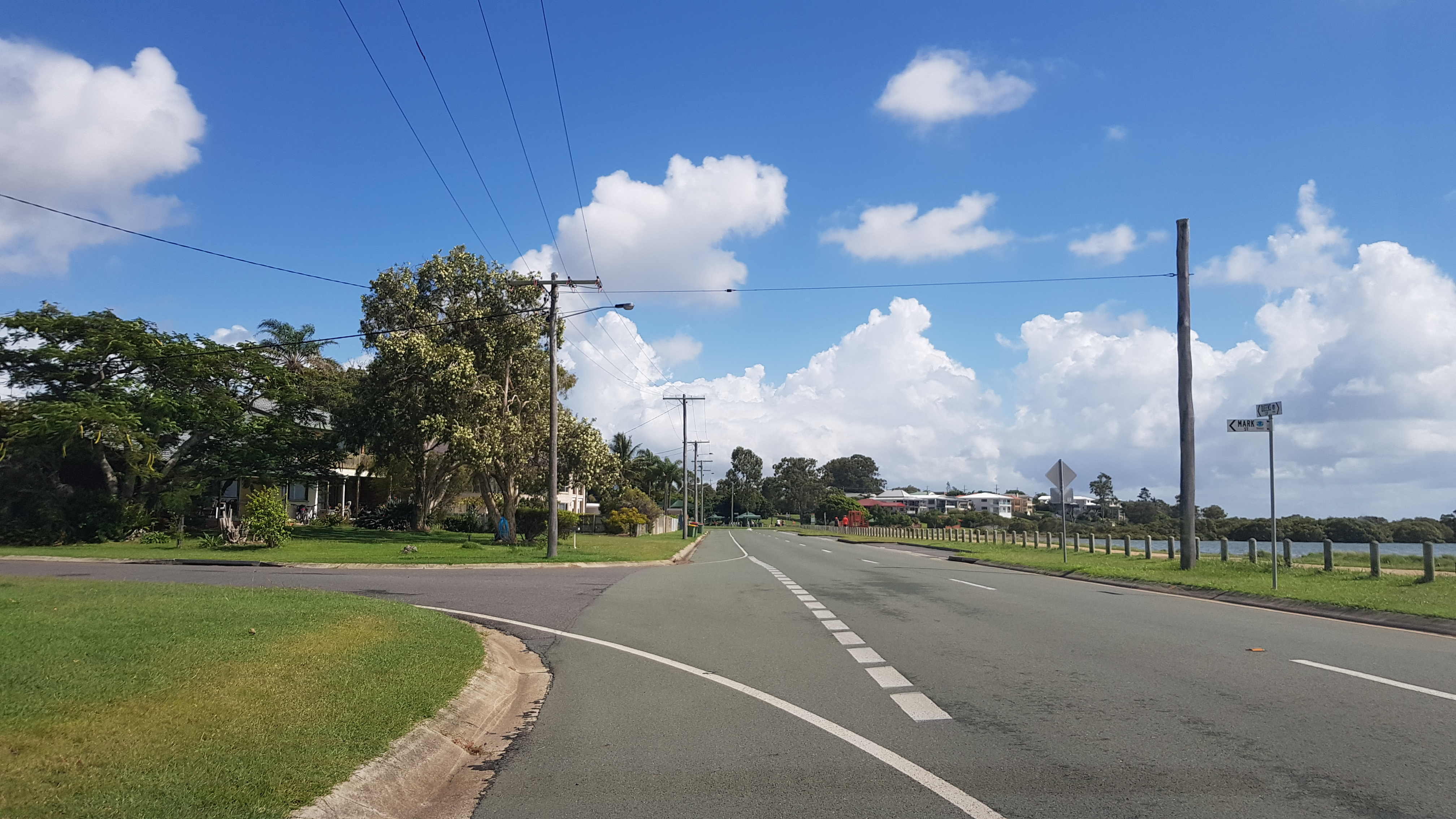 Queens Esplanade at Thorneside, Redland City, Queensland, facing west